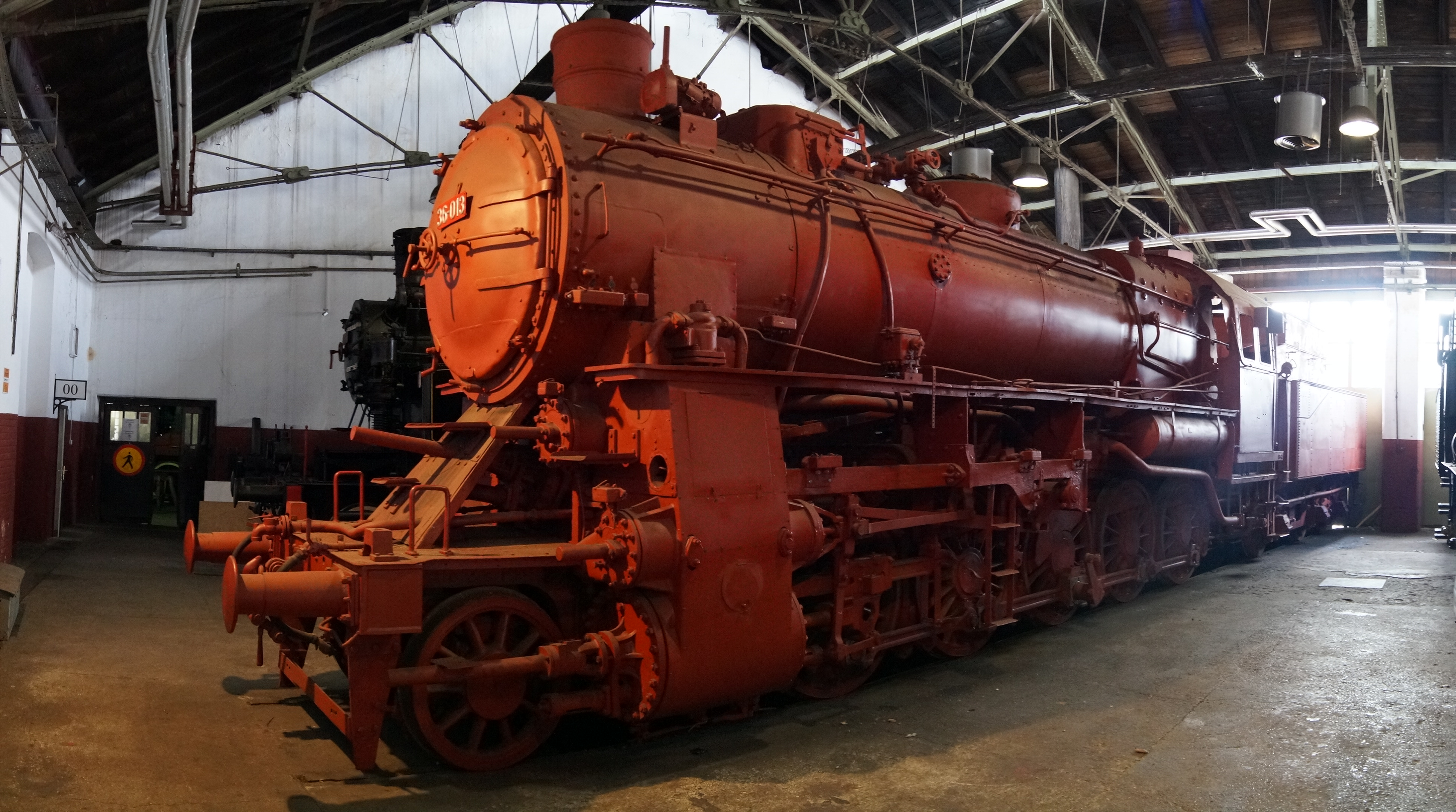 Steam locomotive 36-013 in the Slovenian Railway Museum